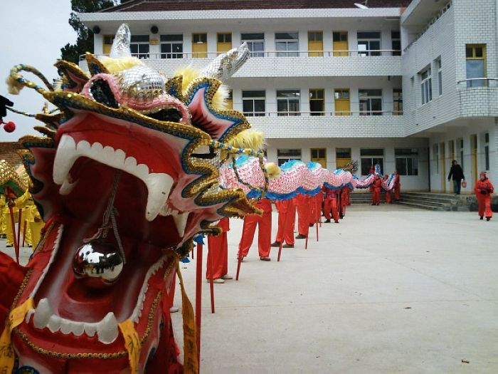 xianju minsu